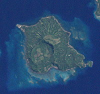 This image (Landsat7) shows Dobu Island, D'Entrecasteaux Islands, Papua Newguinea